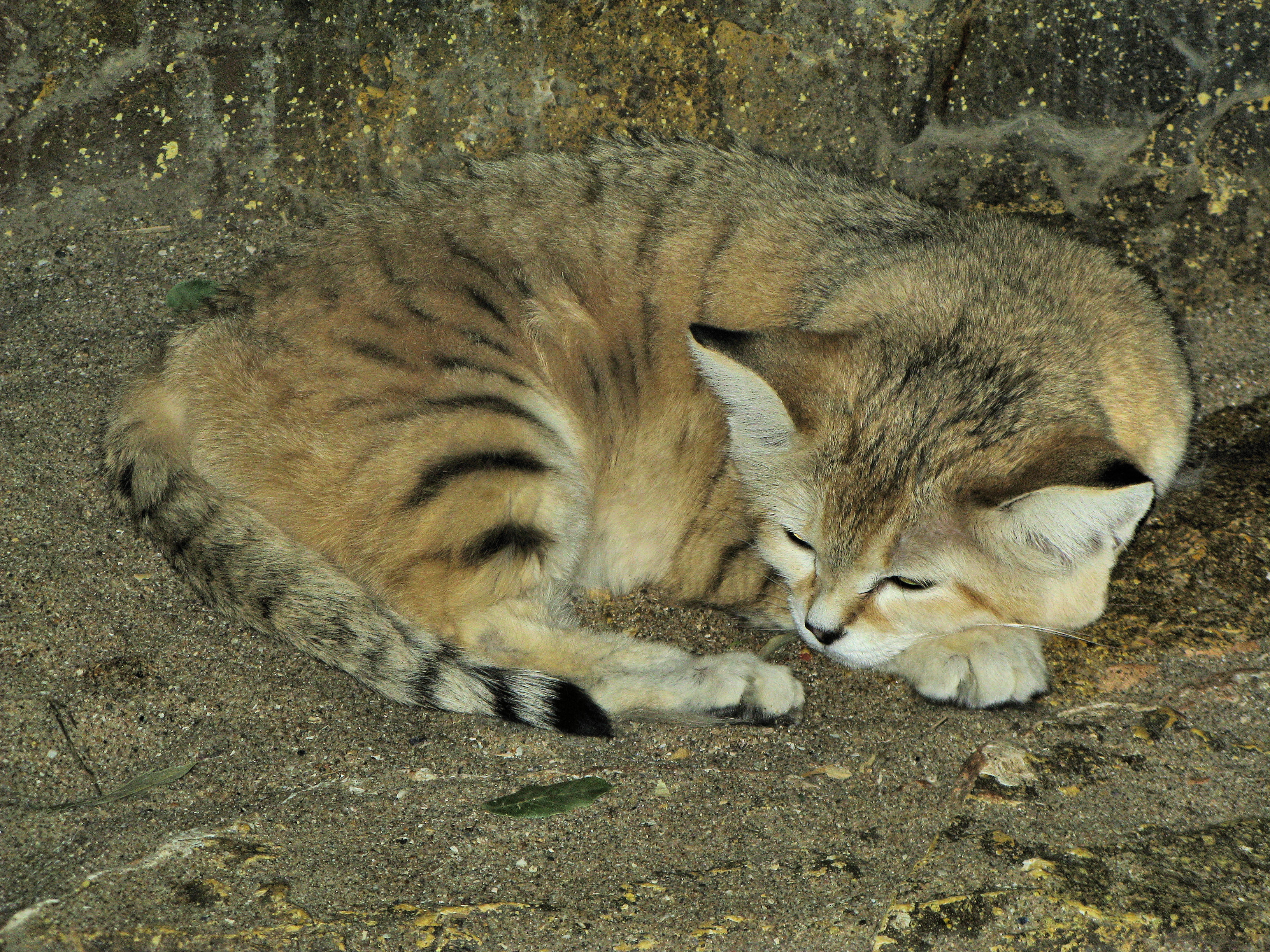 Sand Cat Felis margarita in the Twilight World zone at Bristol Zoo, England.